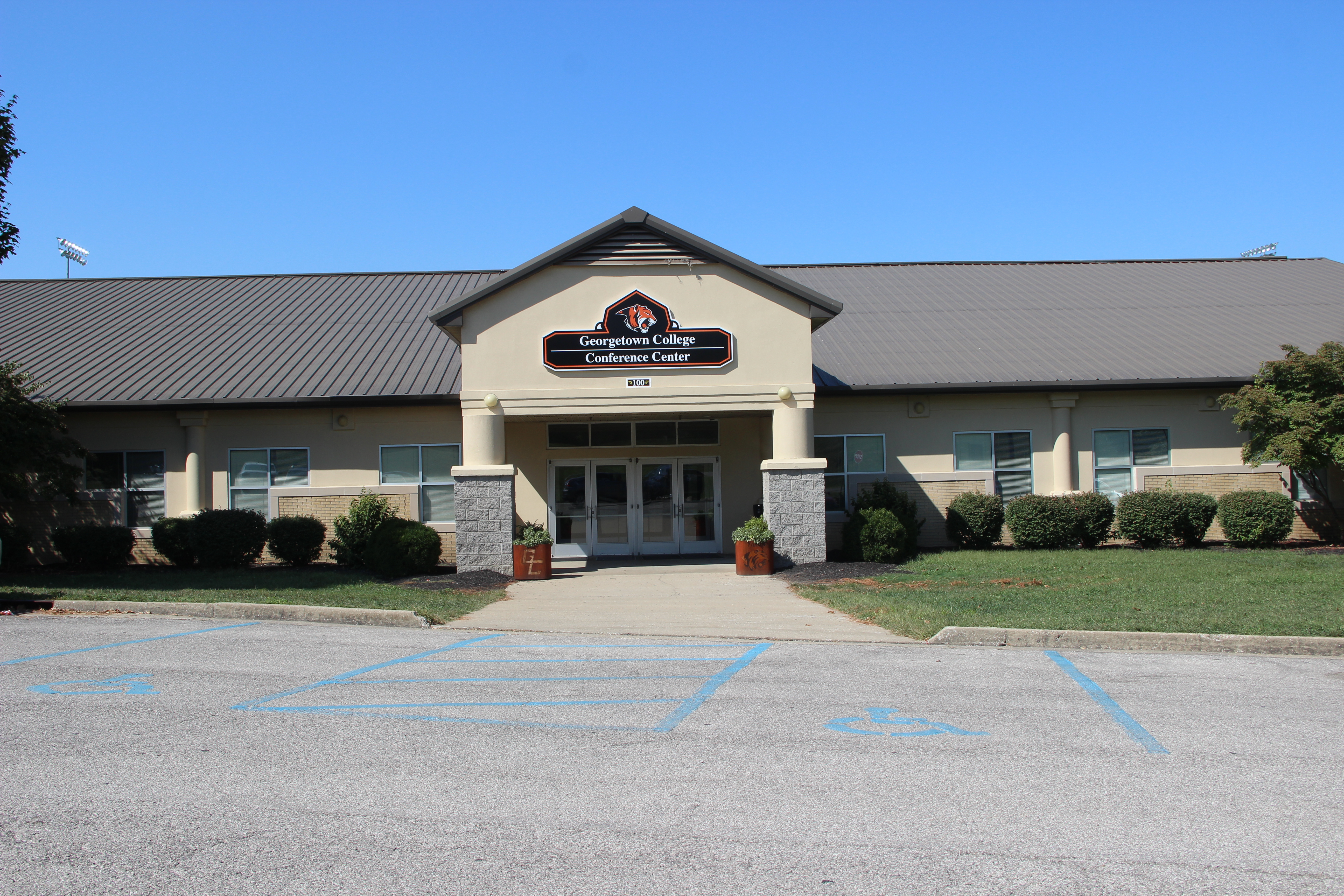 Picture of Georgetown College Conference Center